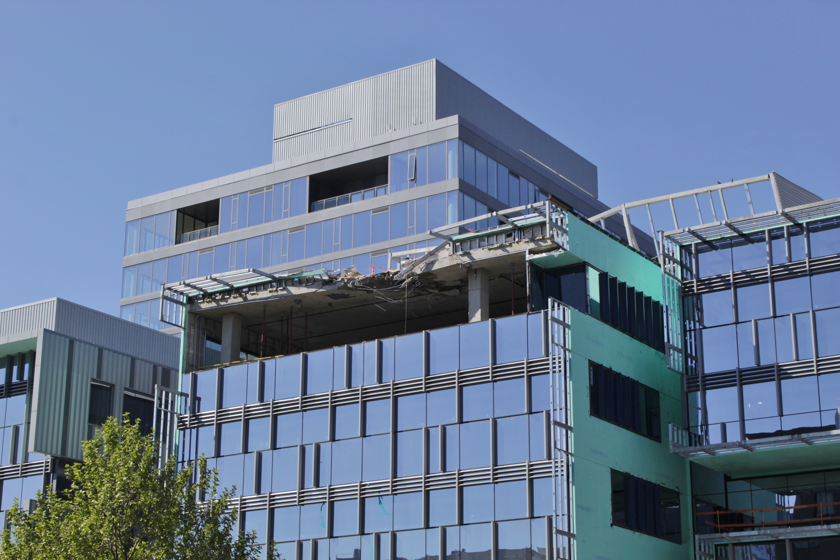 A zoomed-in look at damage to a Google office building in the South Lake Union area of Seattle, following a fatal crane collapse on April 27, 2019.